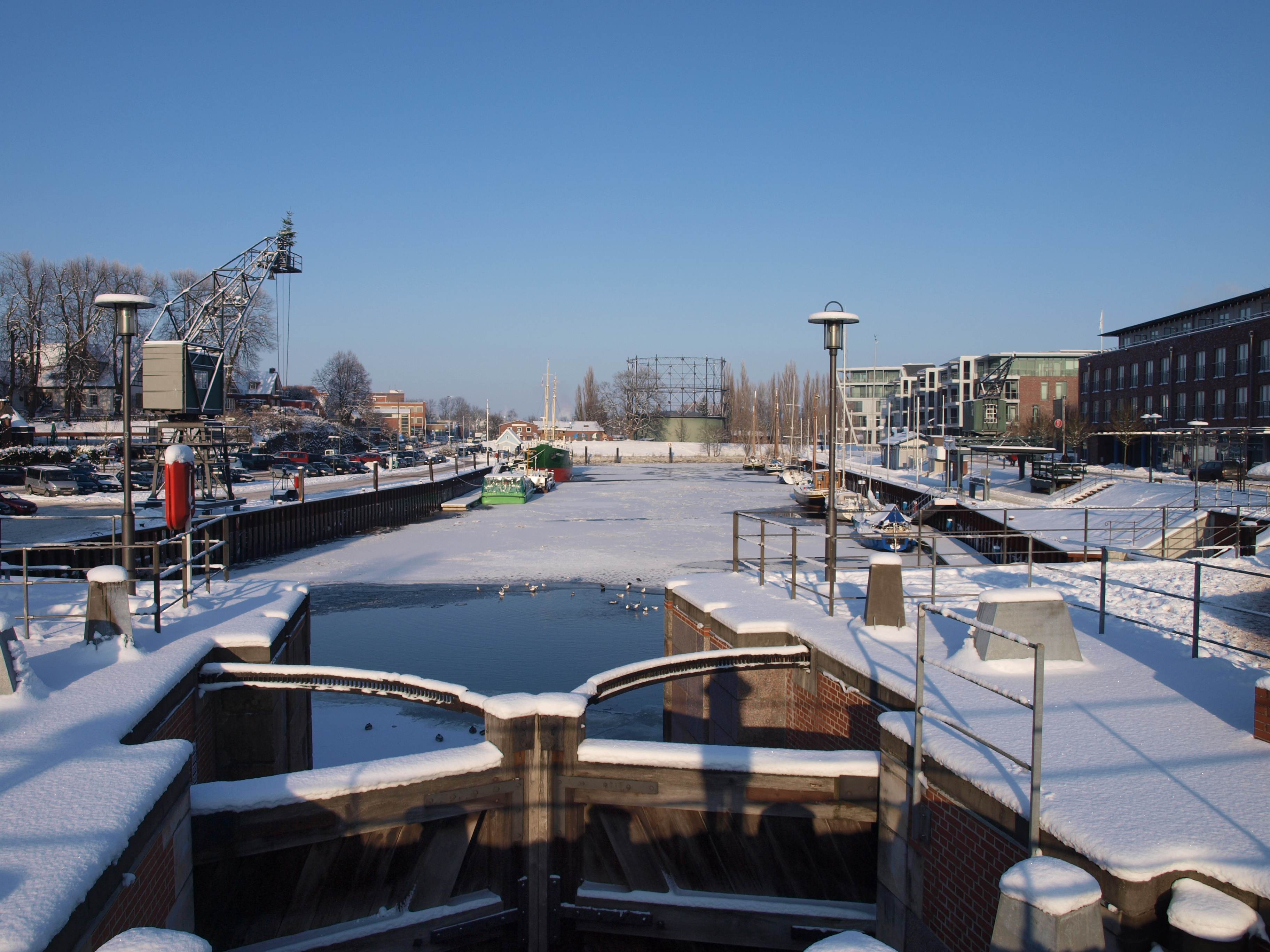 View over the new harbour in "Stade" (Germany).